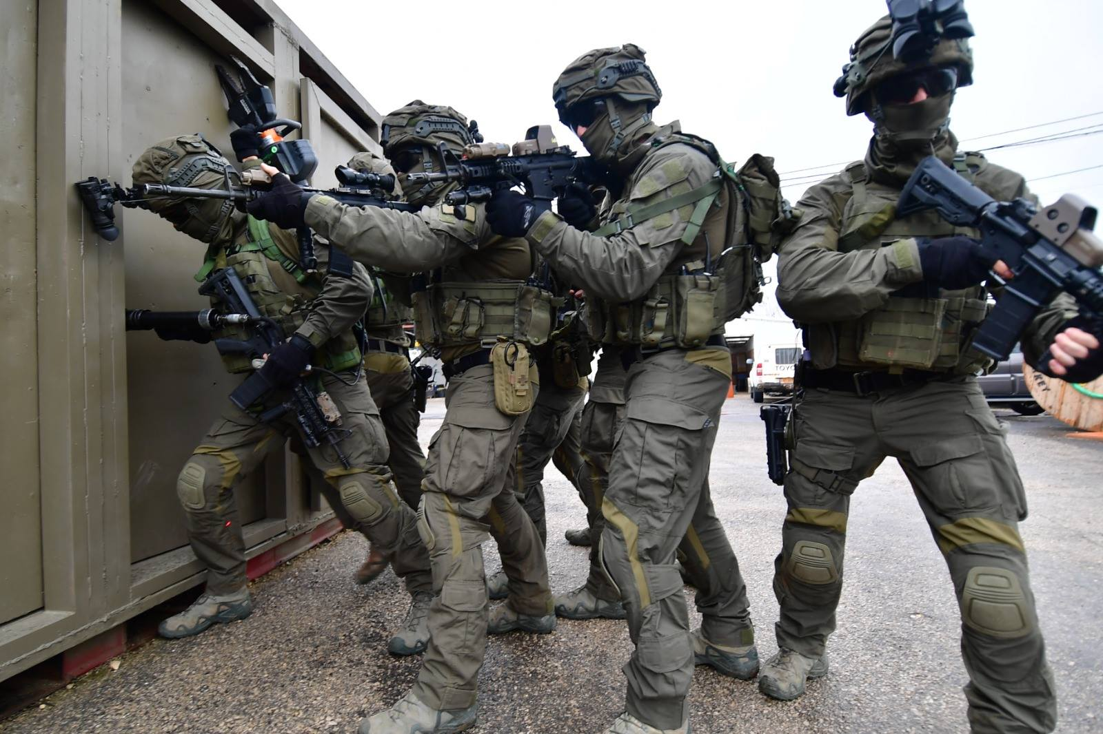 The Gideons special police unit of the Israeli Police